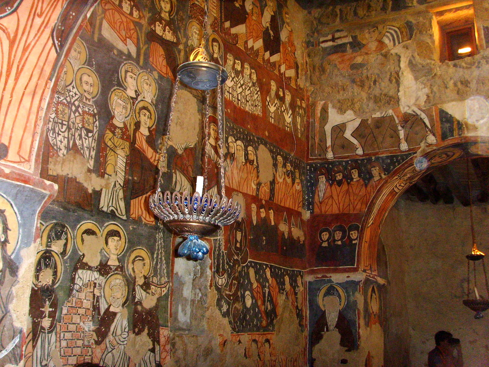 The interior of the church of Deir Mar Musa